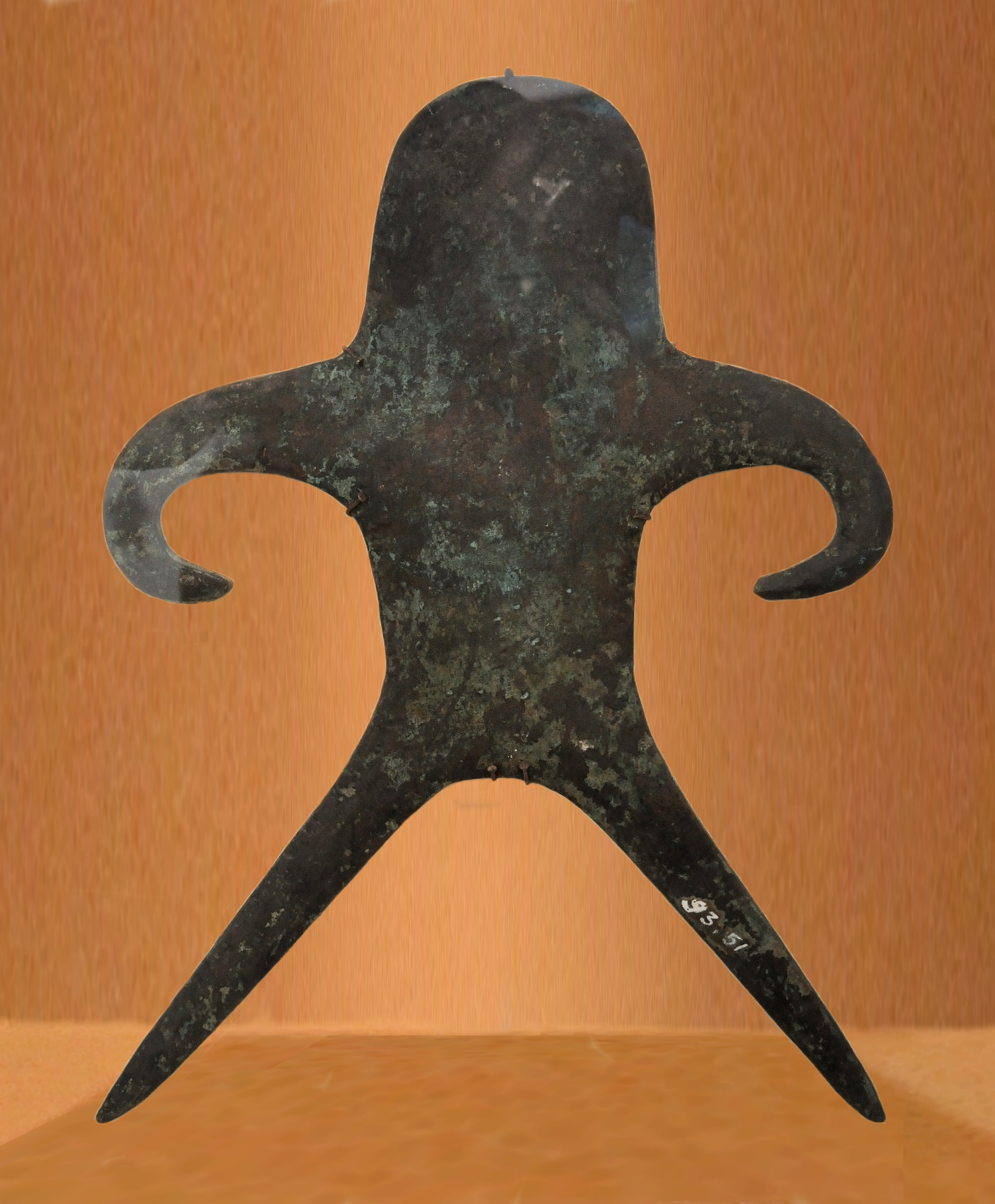 Mathura anthropomorphical artefact